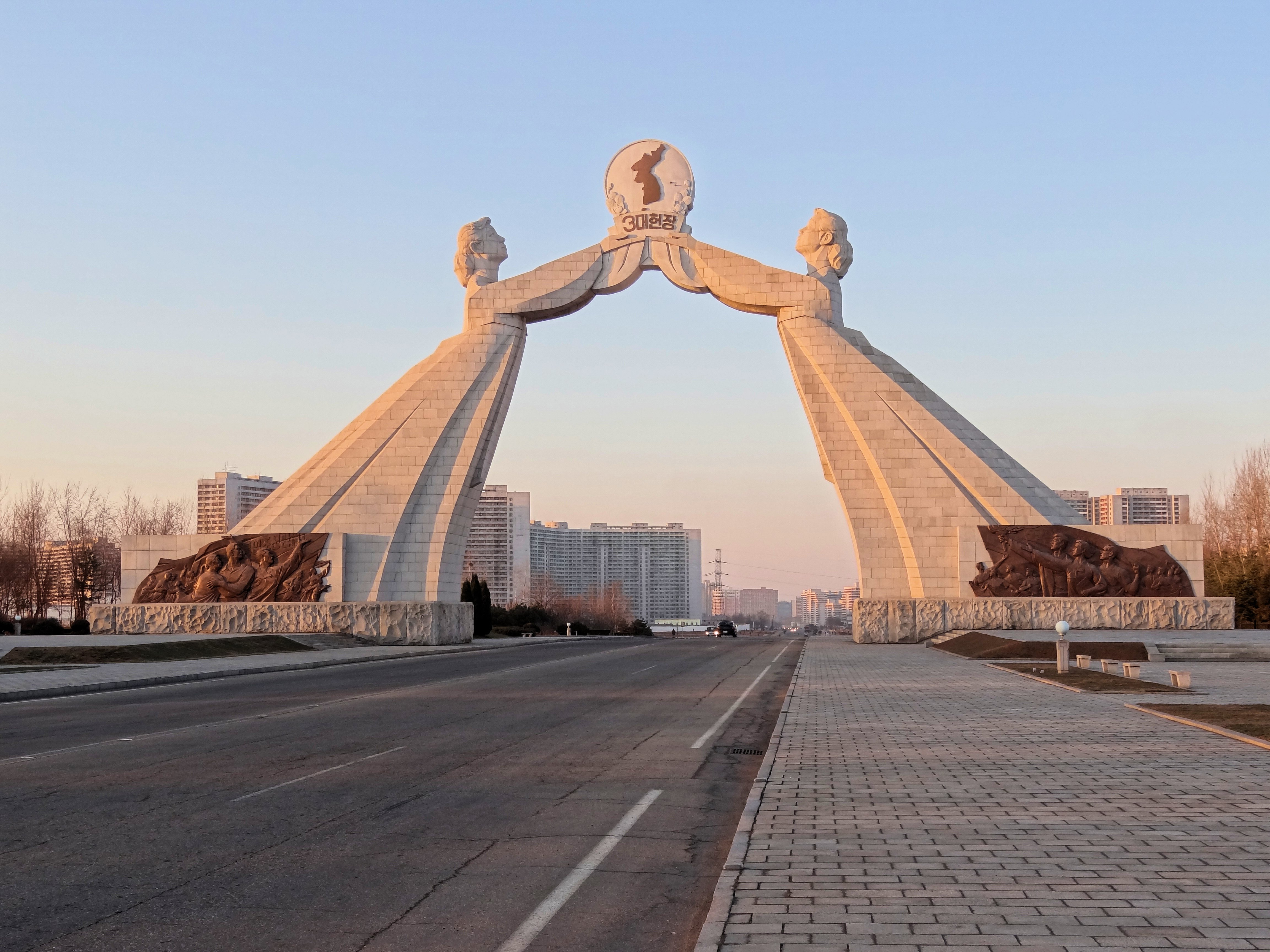 The Monument to Three Charters of National Reunification south of Pyongyang, North Korea. It was built at the southern approach to Thongil Street in August 2001.